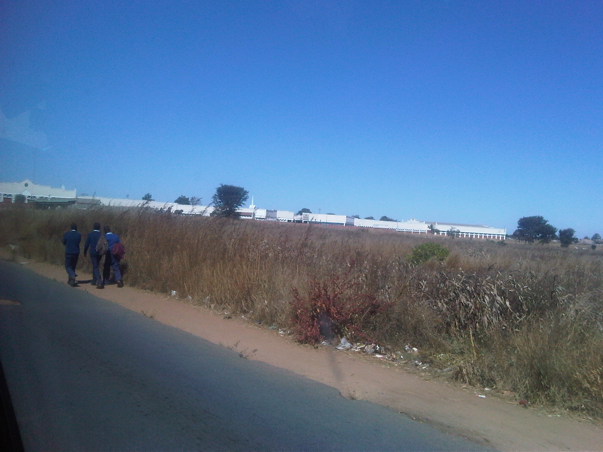 Image taken from a Taxi